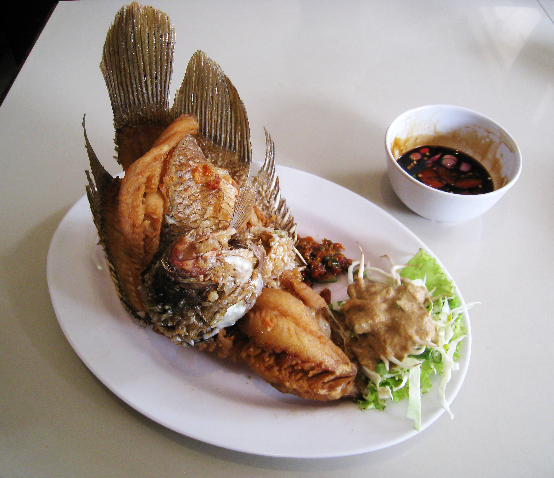 Gurame Goreng Kipas or "Fried Gourami Fan", ikan goreng or fried fish of gourami arranged in fan-shape. Served with karedok vegetables, sambal terasi and sambal kecap. Served in a restaurant in Jakarta, Sundanese cuisine, Indonesia.